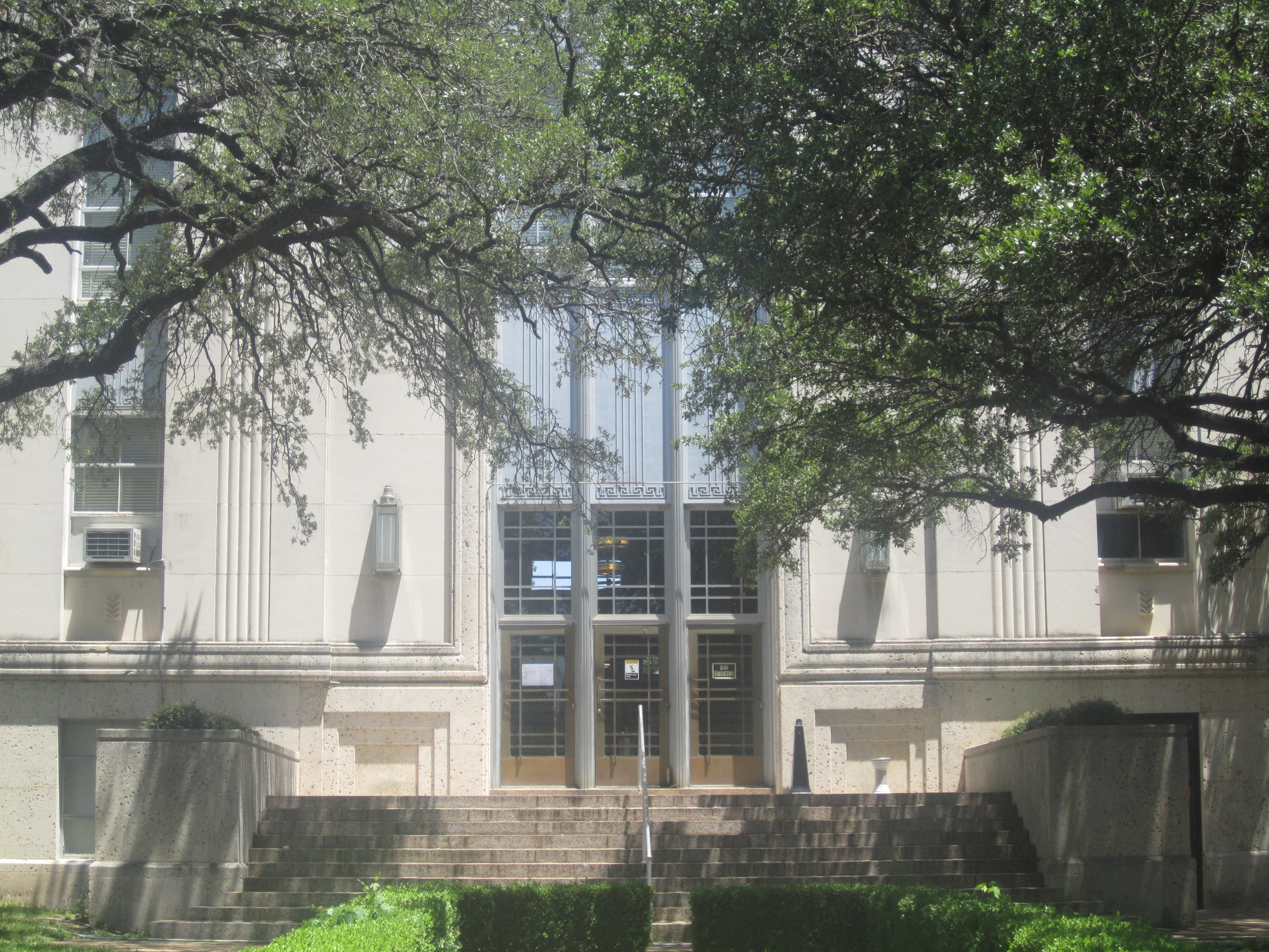 I took photo of Falls County Courthouse in Marlin, TX, with Canon camera on June 1, 2012.Billy Hathorn (talk) 02:32, 29 June 2012 (UTC)